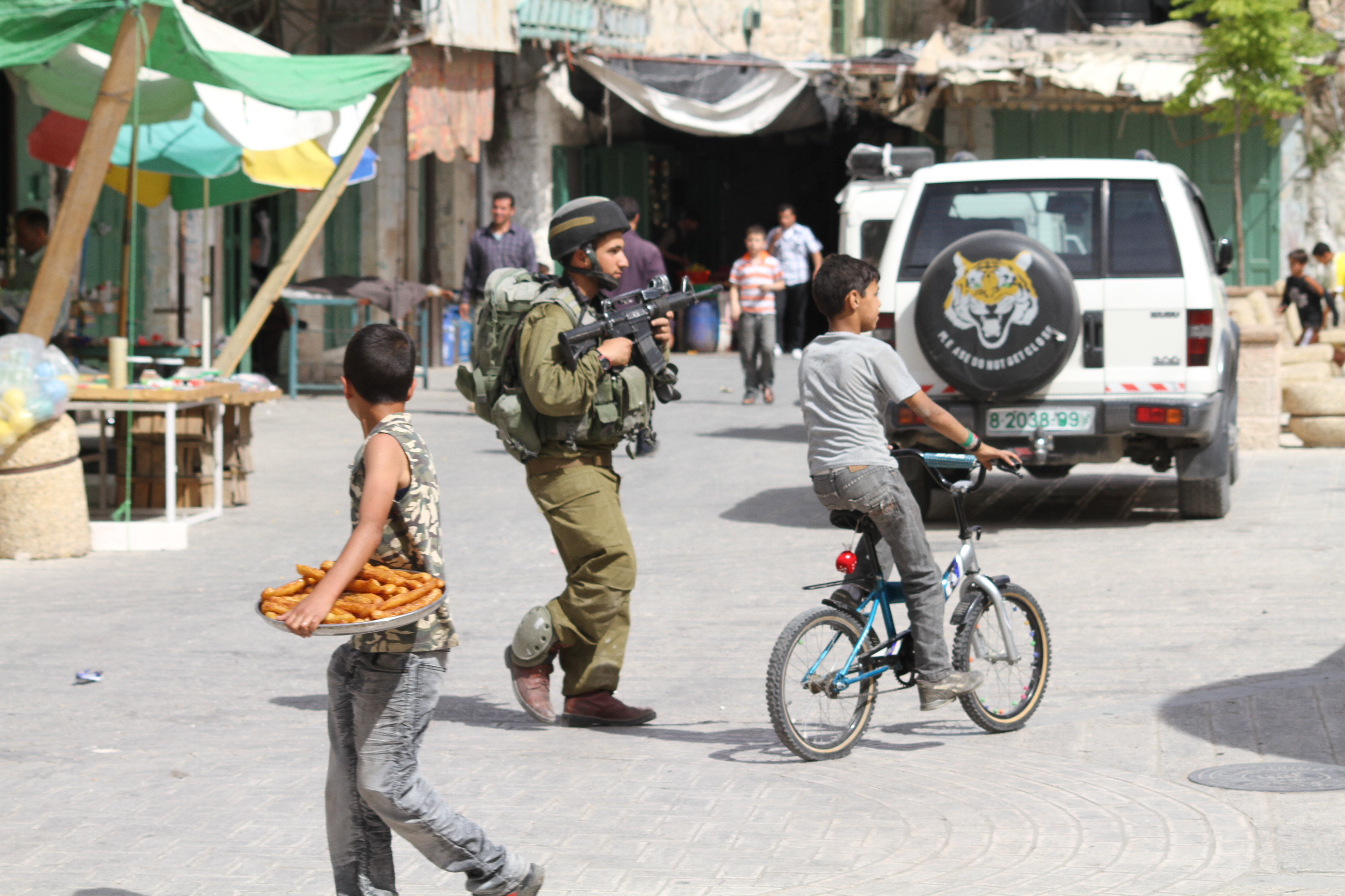 Hebron, street with arab boys and israeli soldier - Israeli Arab conflict in Hebron